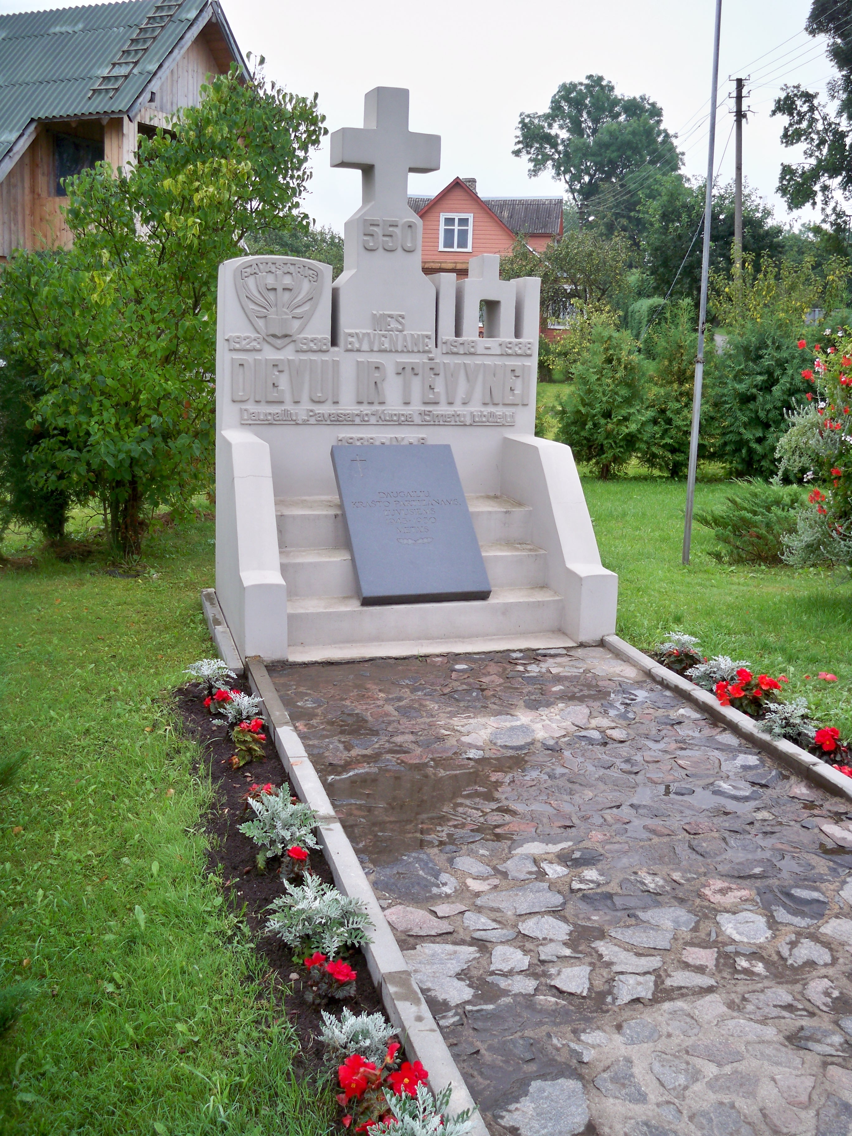 Daugailiai. Monument for victims of resistance movement.